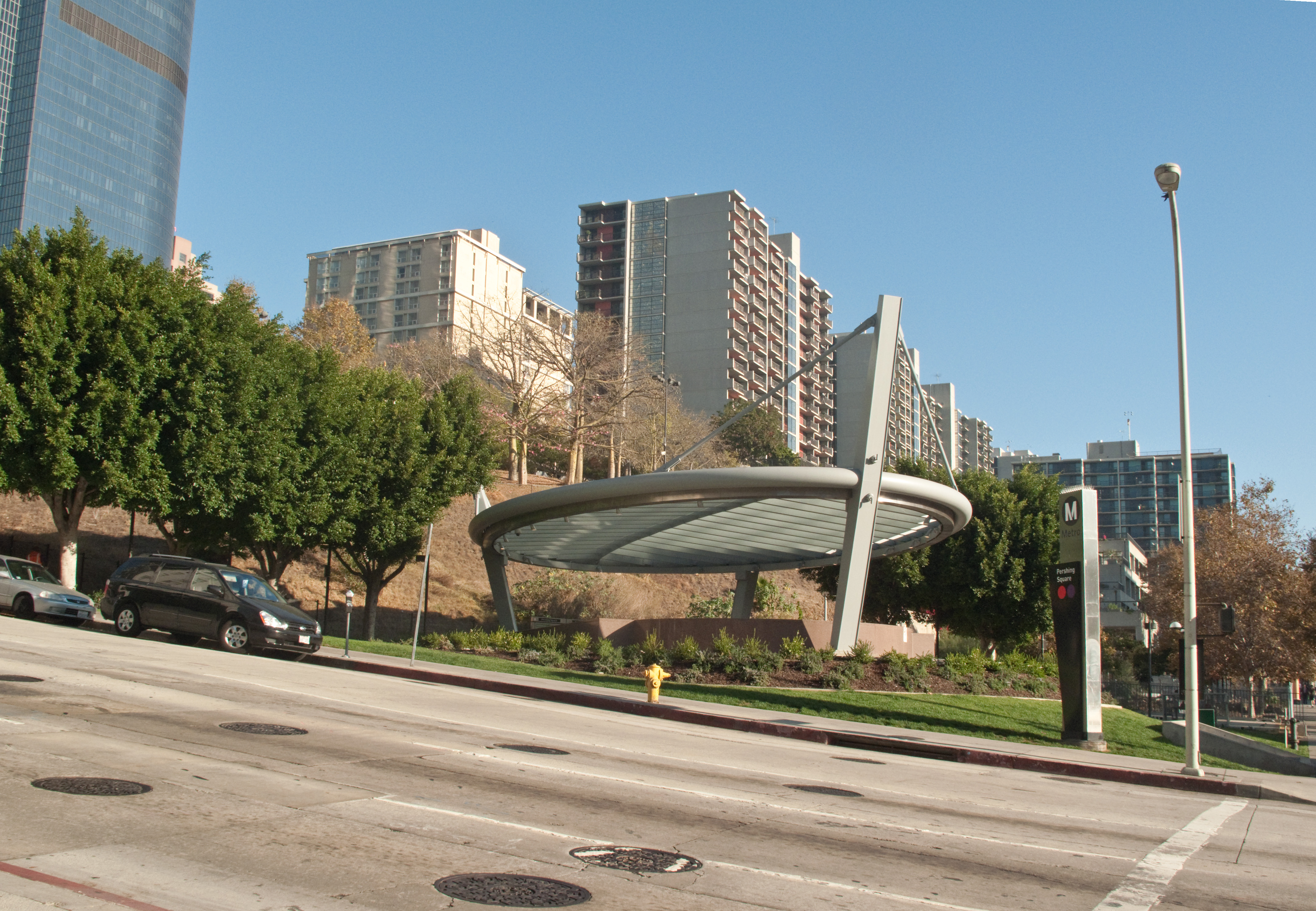 Entrance at 4th & Hill Streets to the Pershing Square Station of the Los Angeles Metro. Corporate office towers of the western part of Downtown Los Angeles are in the background.